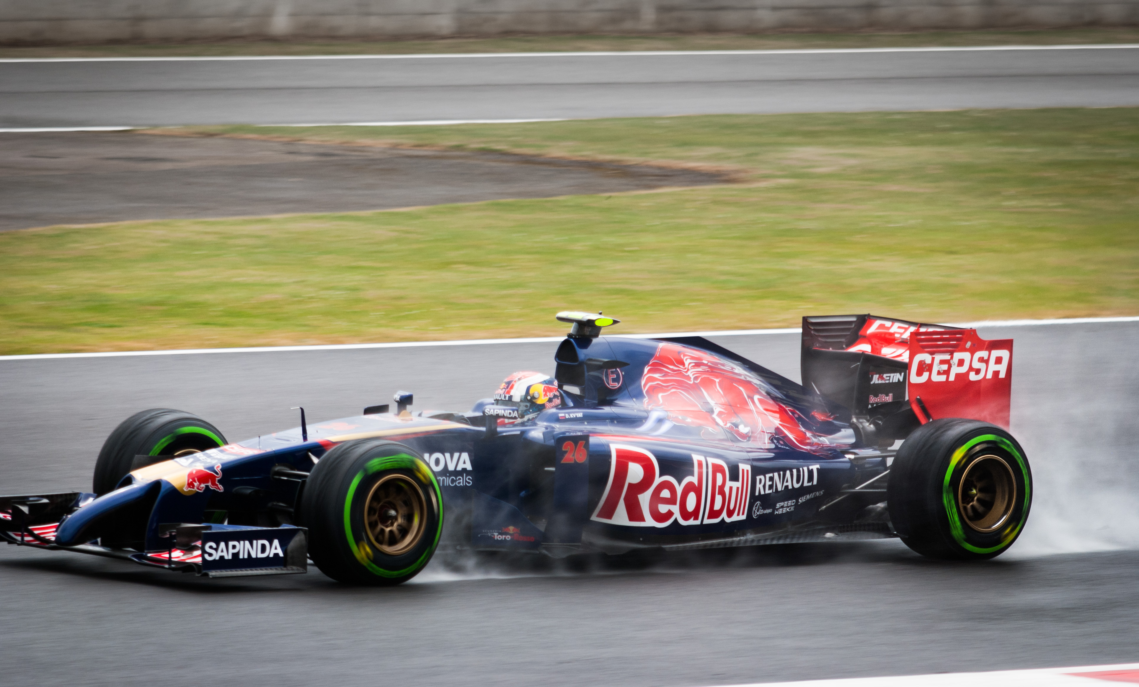 Daniil Kvyat during qualifying for the 2014 British Grand Prix at Silverstone.